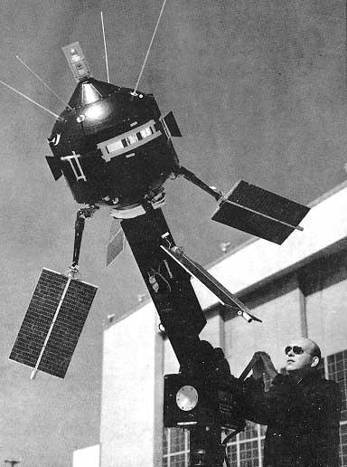 The Ariel 2 spacecraft in an undated file picture.